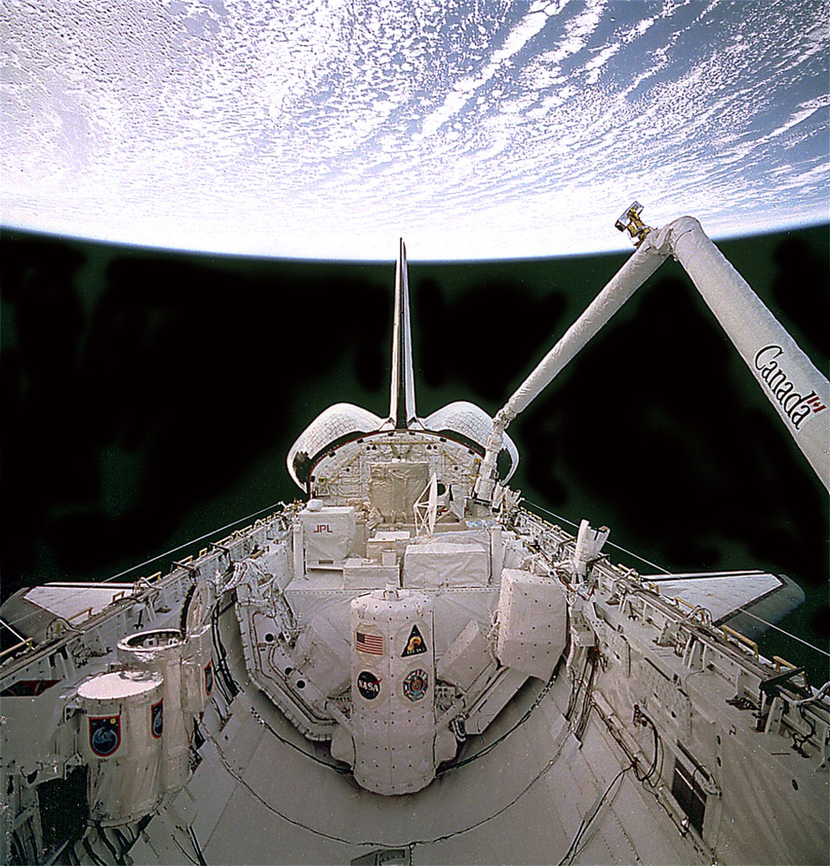 The Shuttle Pallet Satellite is grappled by Atlantis on mission STS-66.